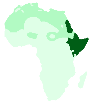 Cushitic languages in dark green